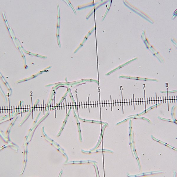 Scientific Name: Spathularia flavida Common Name: Mealy Fairy Fan Certainty: pretty sure (notes) Location: Southern Appalachians; Smokies; CabinCove Spores, at 400x. Marks are 2.5 µm. Note the variable septa.